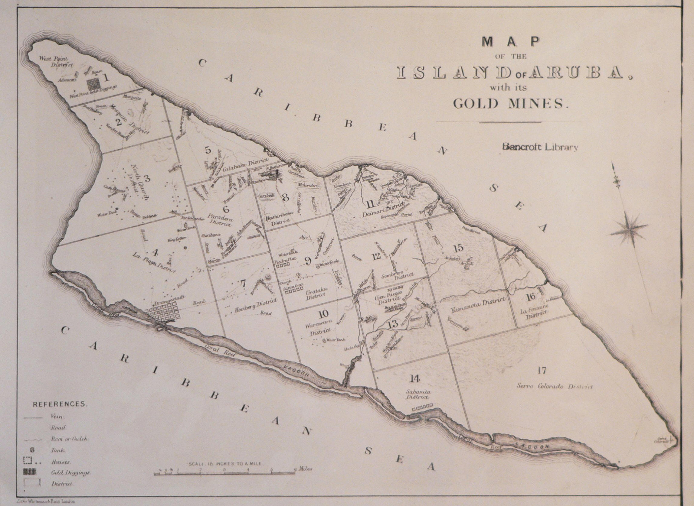 Map of Aruba, Caribbean Sea